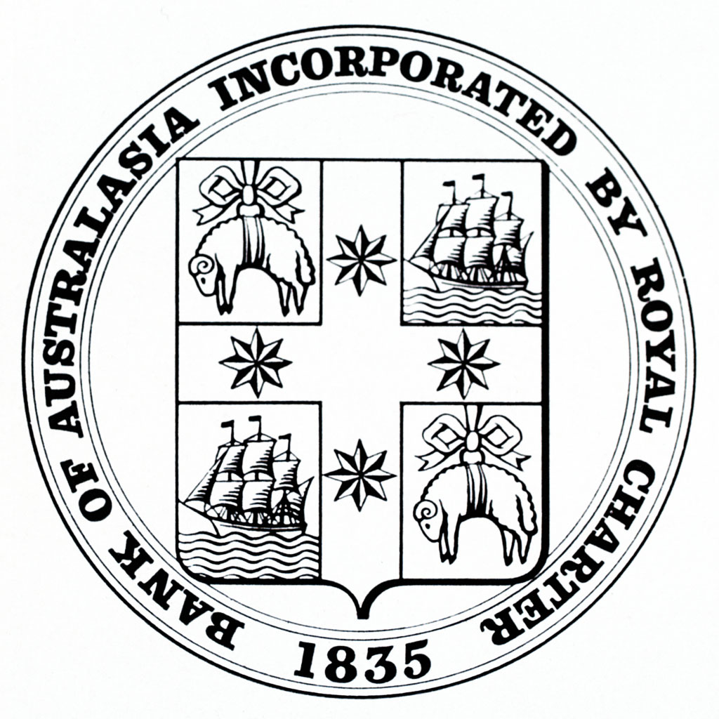 Seal of the Bank of Australasia, established 1835 in London. The Bank was operating in Australia and in New Zealand until 1951 and amalgamated with Union Bank of Australia Limited to Australia and New Zealand Bank Limited.